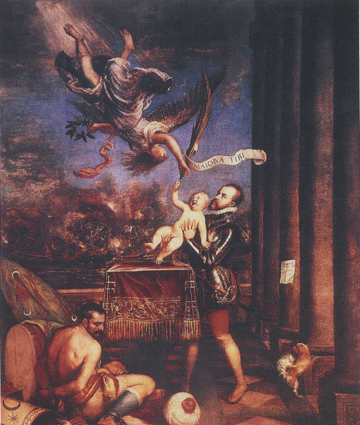 Titian, Following Victory at Lepanto, Felipe II offers Prince Fernando to Heaven, 1572-1575, oil on canvas, 335 × 274 cm Philip II offering Fernando to Victory. Museo del Prado, Madrid.Painted by Titian in his nineties, this allegorical work celebrates the victory of a Catholic coalition over the Ottoman Turks at the Battle of Lepanto in 1571 and the birth shortly afterwards of a male heir to King Philip II of Spain, Don Fernando, which were both seen as signs of God's favour. The battle is shown in the background, and a bound and defeated Turk at Philip's feet. An angel descends from heaven bearing a palm branch with a motto for Fernando, who is held up by Philip: "Majora tibi" (may you achieve greater deeds). Titian died in 1576 and Prince Fernando in 1578. Lepanto effectively ended Ottoman ambitions in the western Mediterranean. (Reference: Robert Enggass and Jonathan Brown, Italian and Spanish Art, 1600–1750: Sources and Documents, Evanston: IL: Northwestern University Press, 1992, ISBN 0810110652, p. 213.